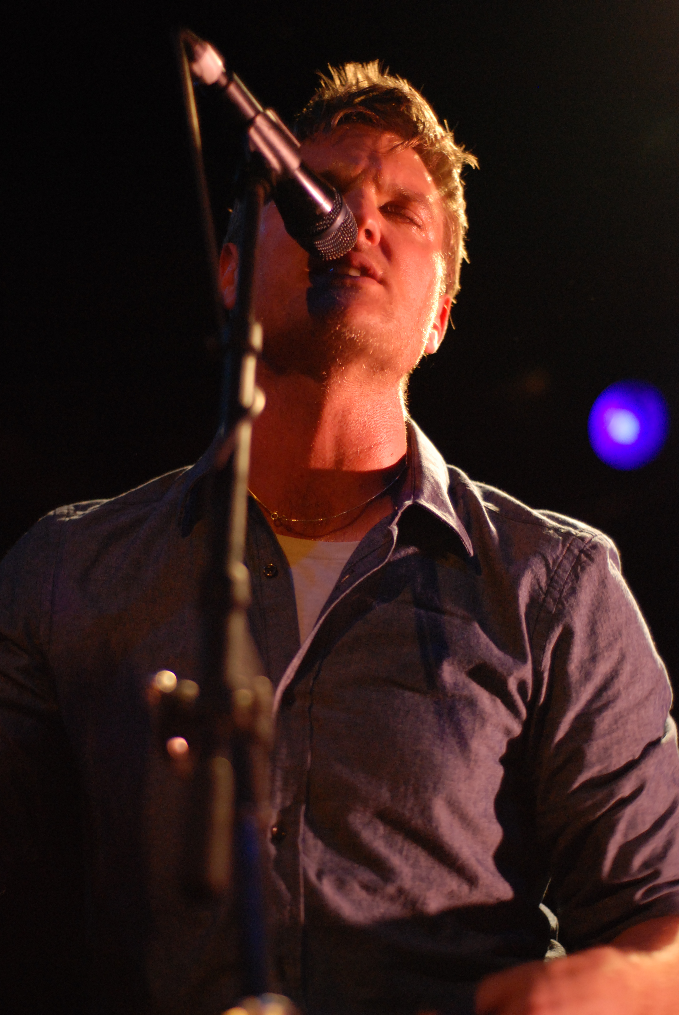 Nathan Willett, lead singer of Cold War Kids